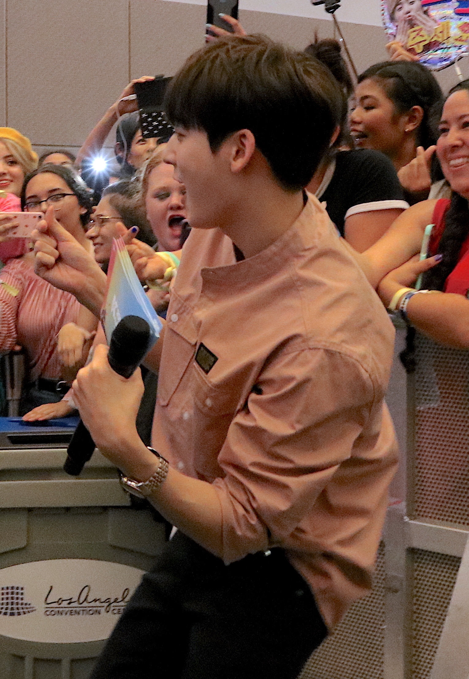 Kevin Woo at KCon 2017 LA